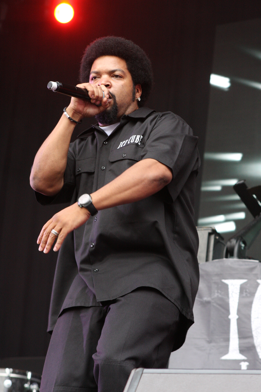 Ice Cube playing Supafest 2012, Sydney, Australia